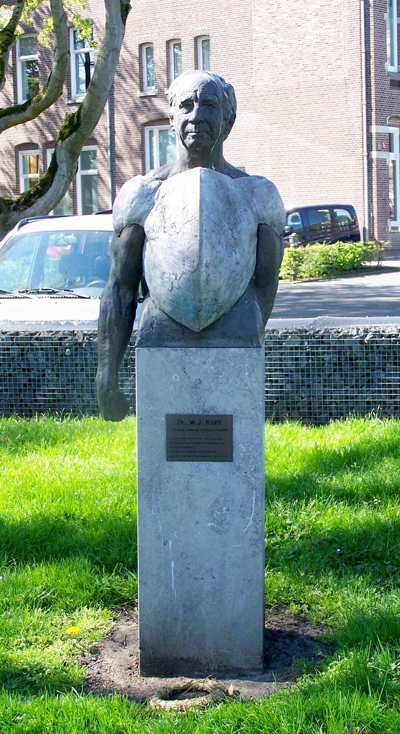 Bust/Statue of Willem Kolff at the Engelenbergplantsoen/Hendrik van Viandenstraat in Kampen. By Norman Burkett in 1984.